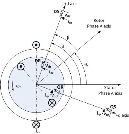 d,q coordinate system superimposed on three-phase system, adapted from and